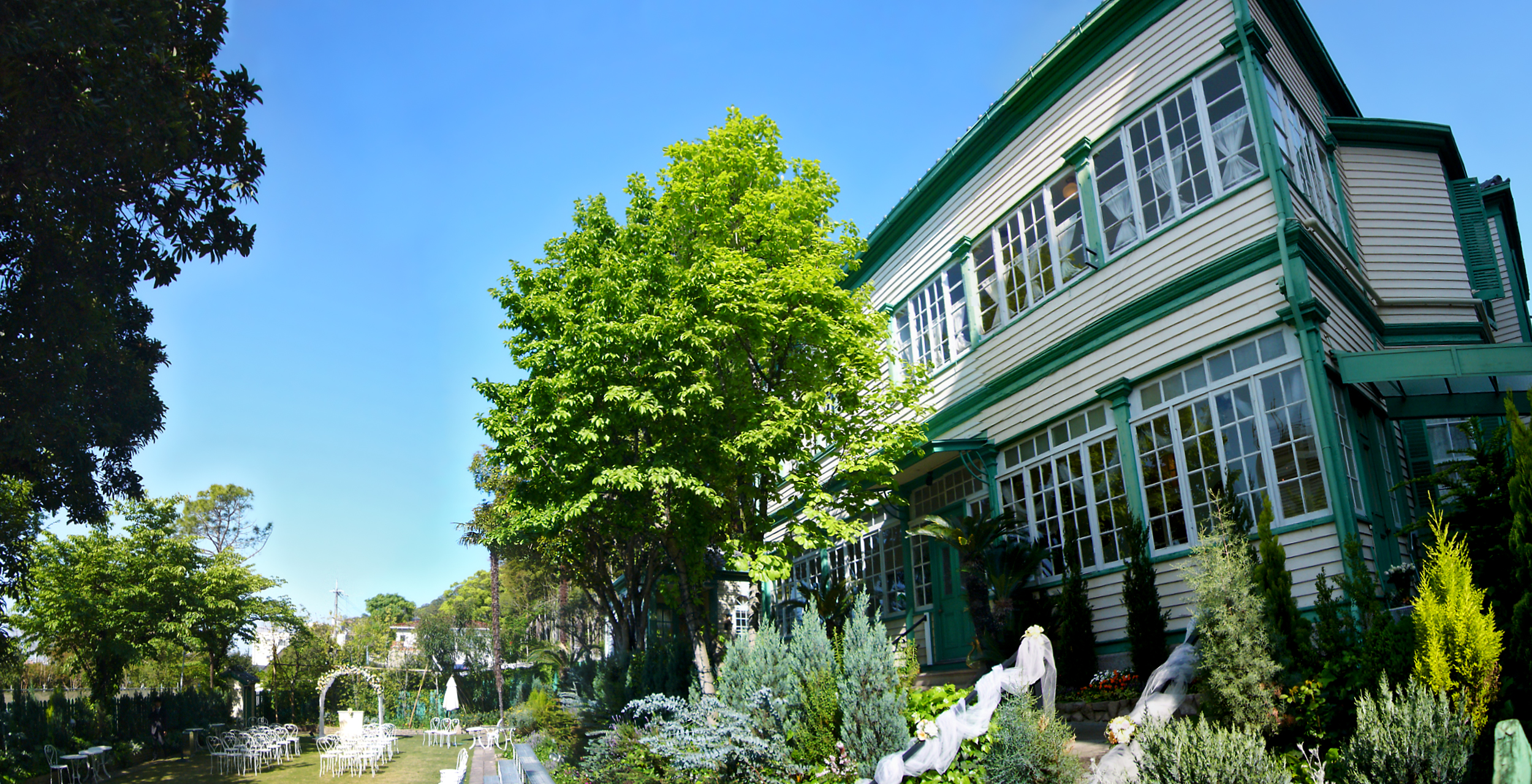 Old Sassoon house in Kobe, Hyogo prefecture, Japan